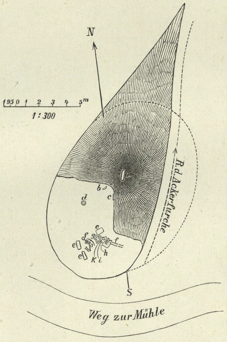 Plan of the Burial mound Stockhof